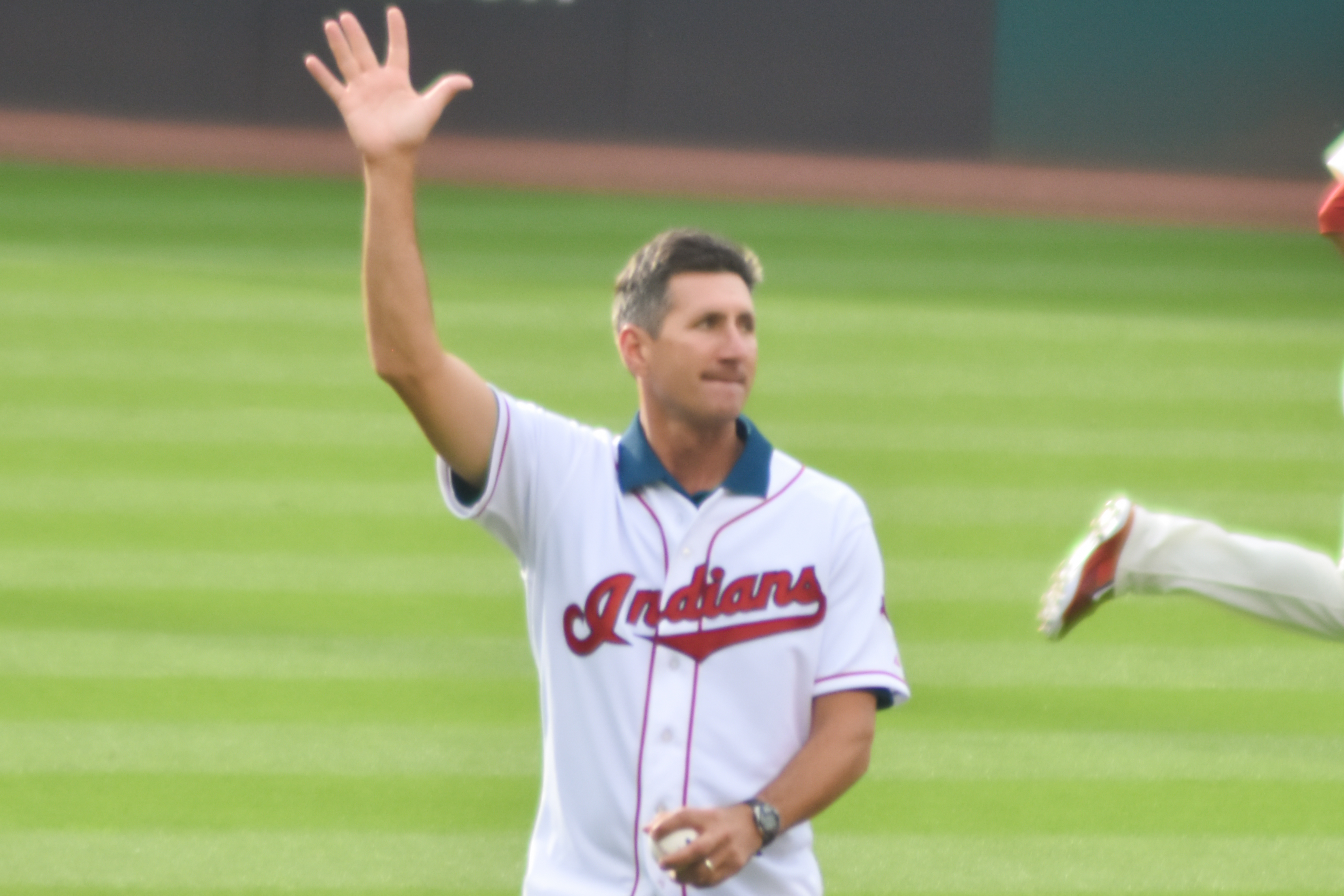 Charles Nagy